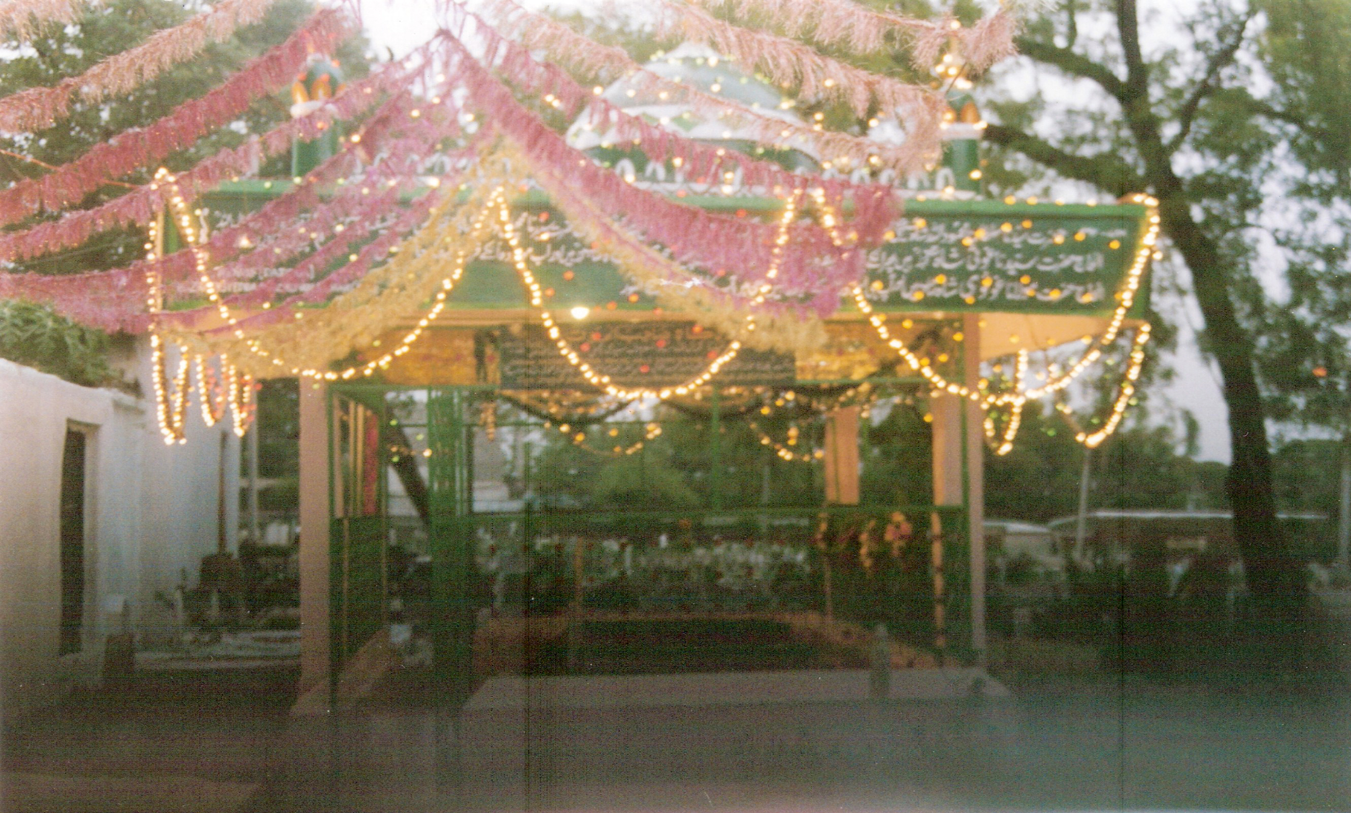 Shrine gumbad photo of hazrath machiliwale shah also known as syed kamalullah shah